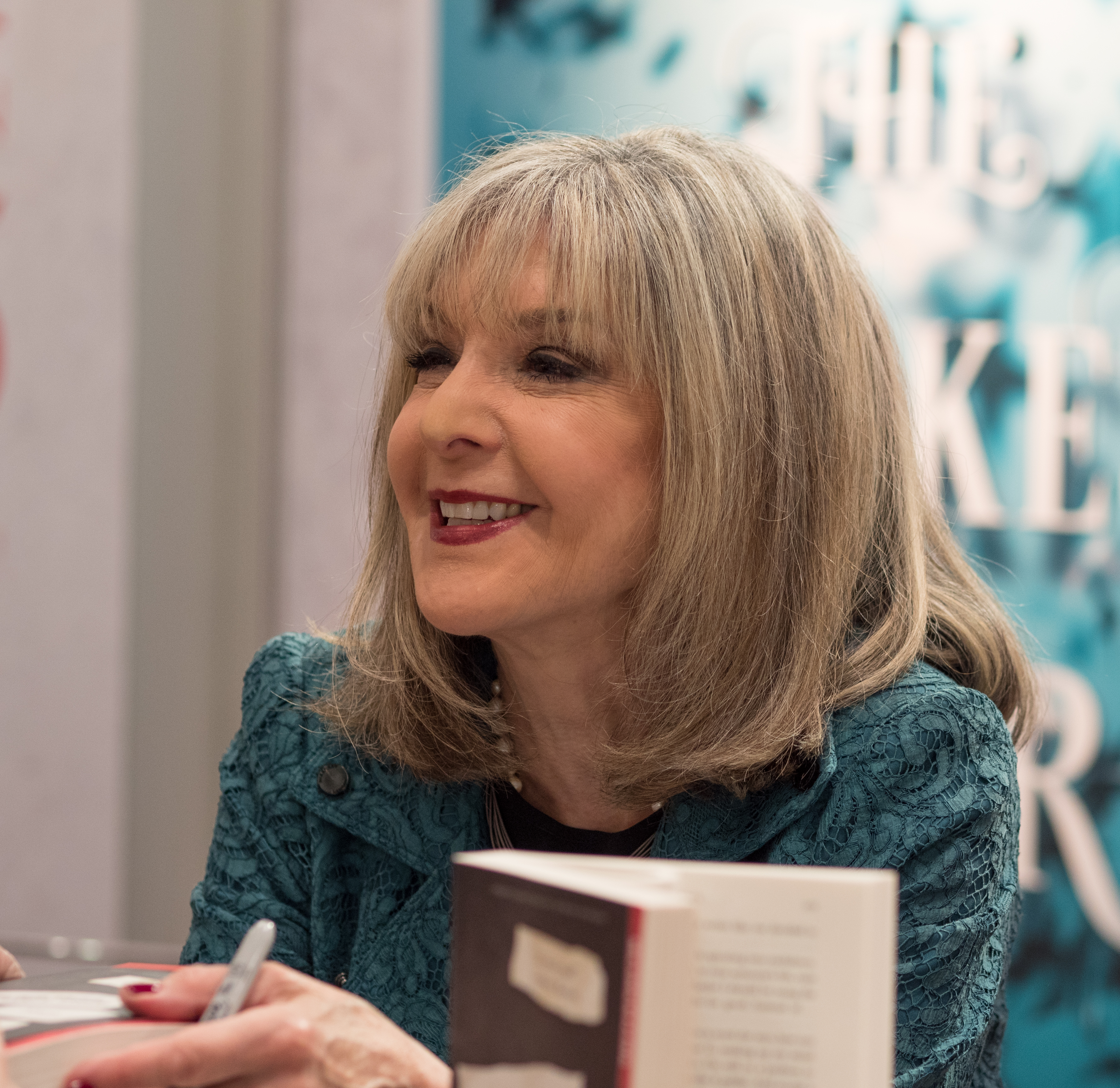 Hank Phillippi Ryan BookExpo America 2018 at the Javits Convention Center in New York City.